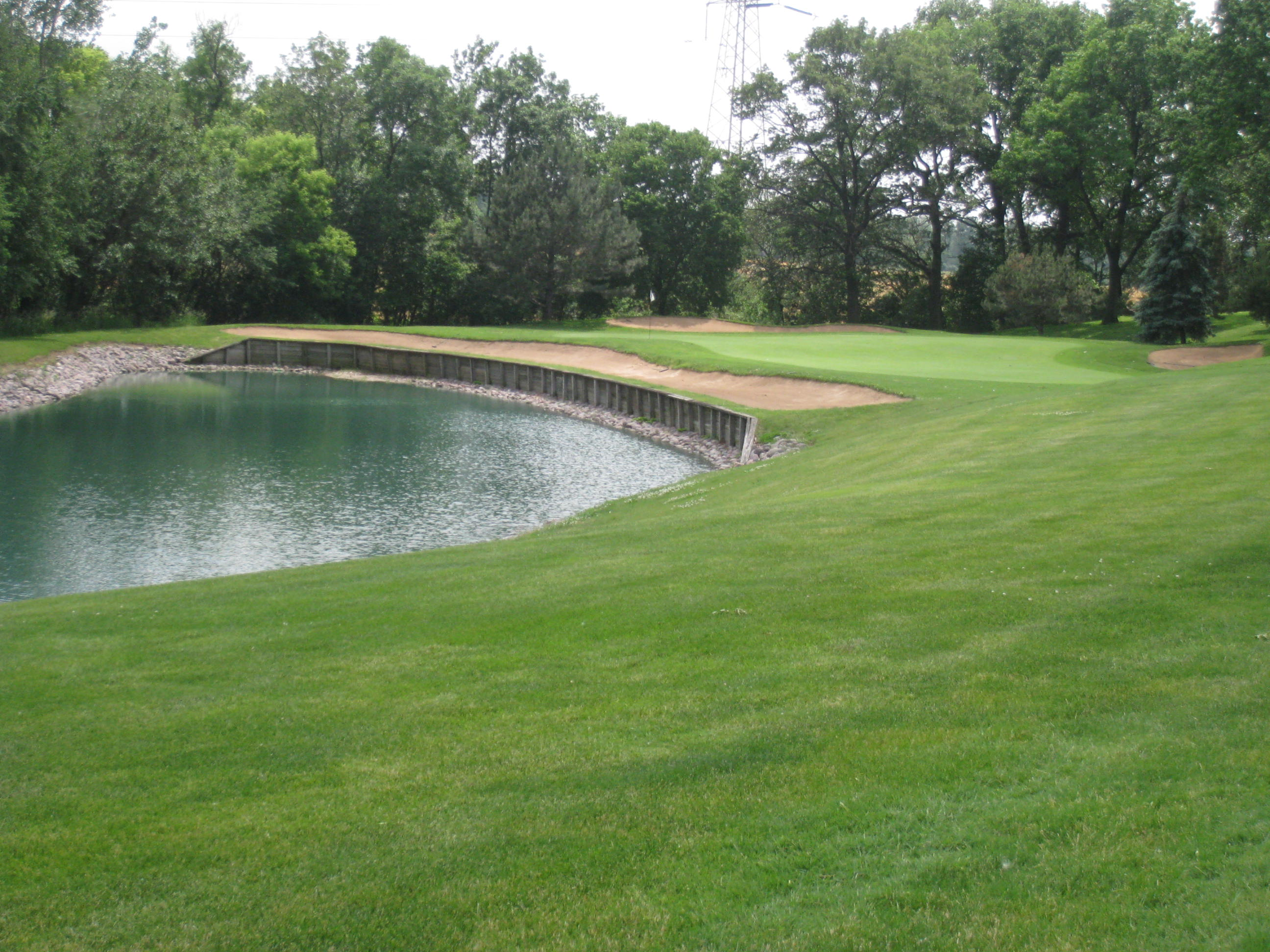 Water harzard.